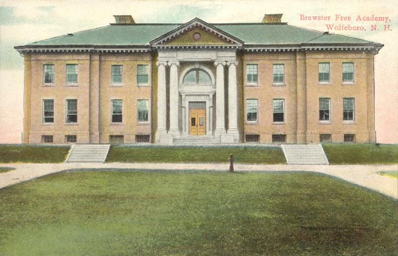 Brewster Free Academy, Wolfeboro, New Hampshire. The building opened in 1905 after its predecessor burned in 1903.